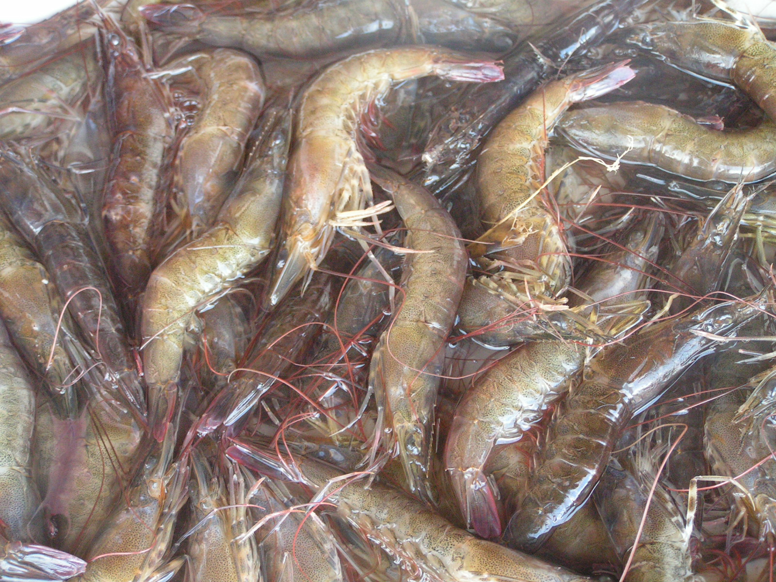 shrimps in Bohol, Philippines